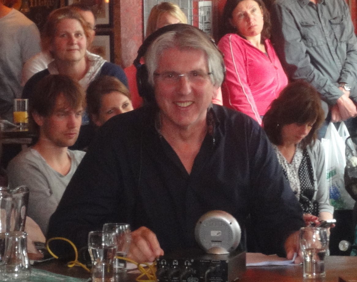 Felix Meurders presenting Spijkers met Kopen